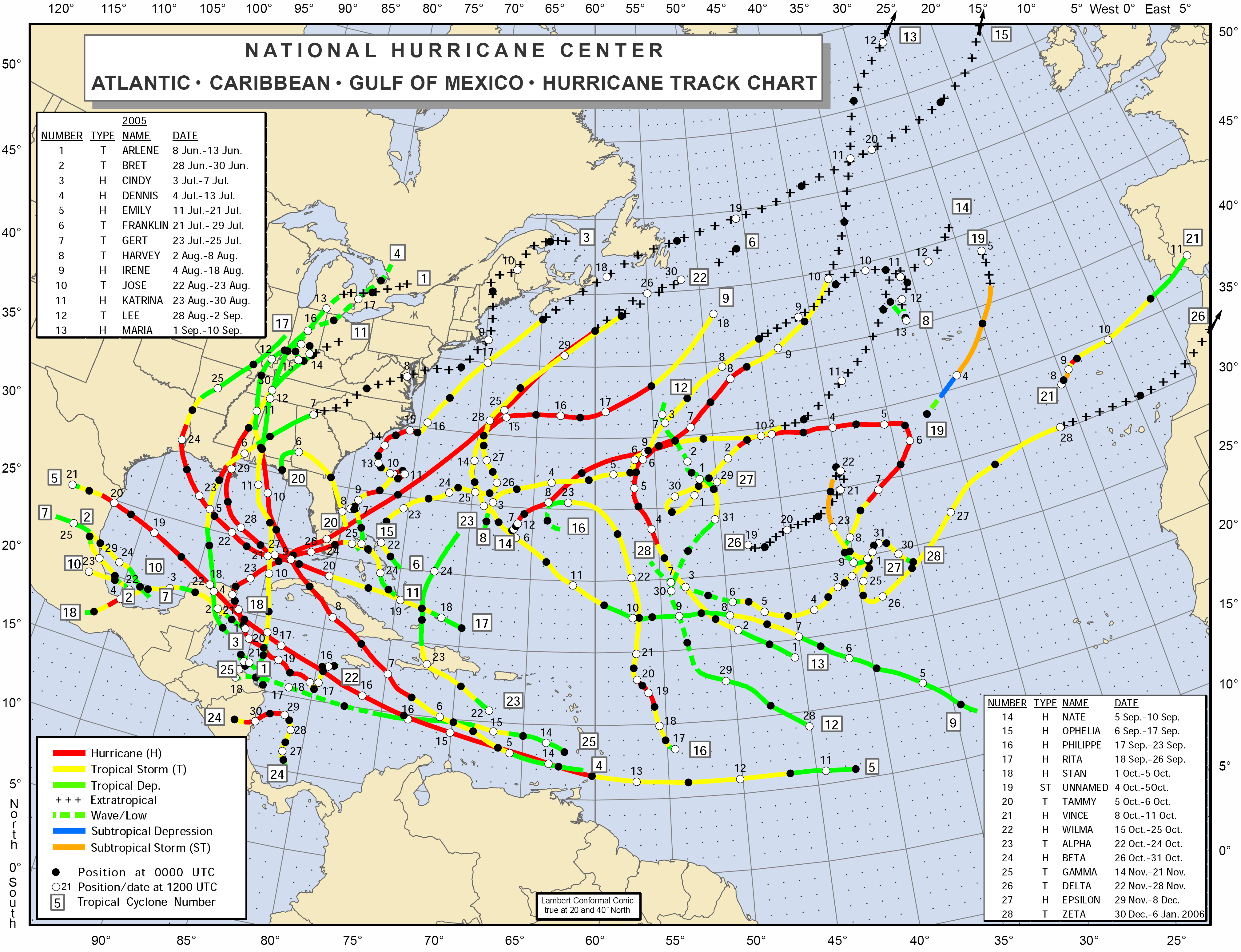 Season summary provided by NOAA of the 2005 Atlantic hurricane season.